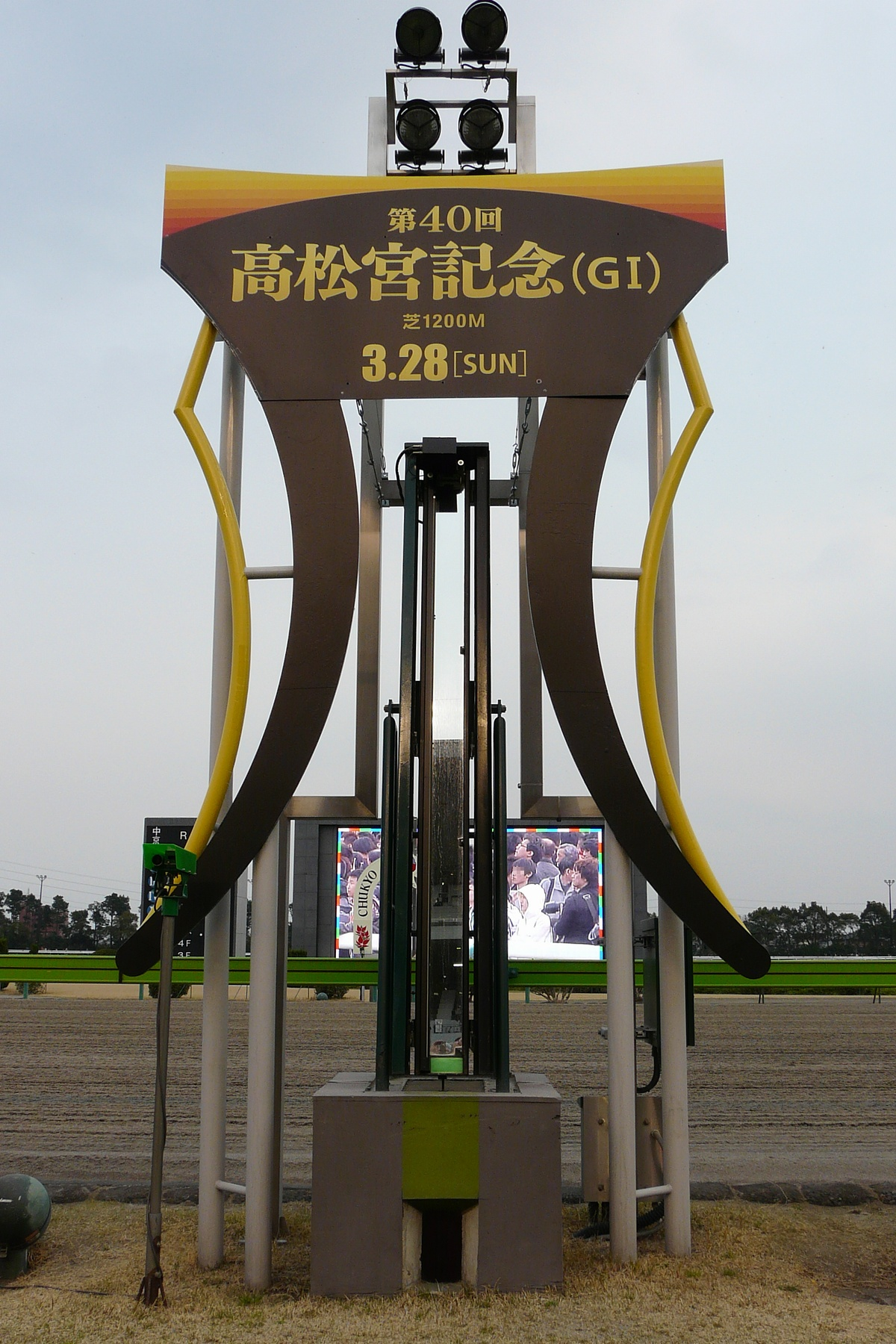 Chukyo_Racetrack_11